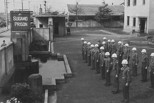 Sugamo Prison Guard Soldiers